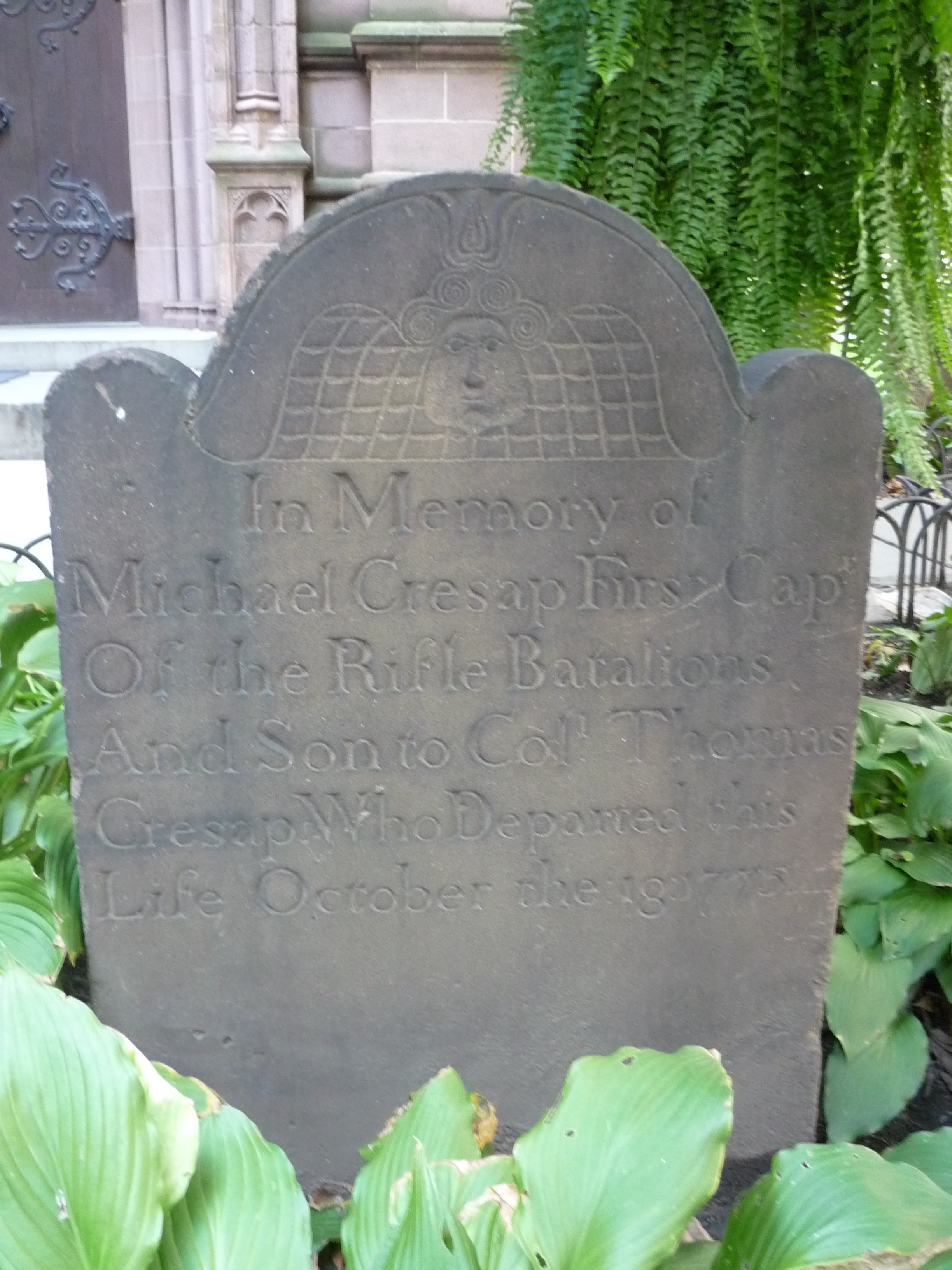 This photo is of Wikis Take Manhattan goal code G4, Michael Cresap.